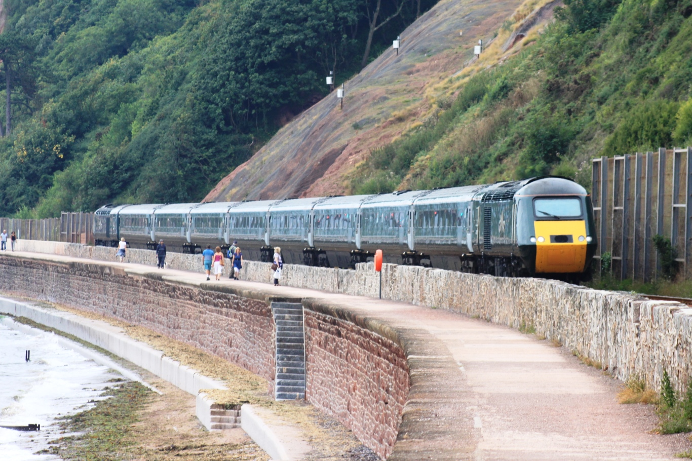 A summer Saturday service from Penzance to London runs along the sea wall in Devon near Parson's Tunnel. The train is formed of Great Western Railway's first refurbished high speed train powered by 43187 (in the front) and 43188.